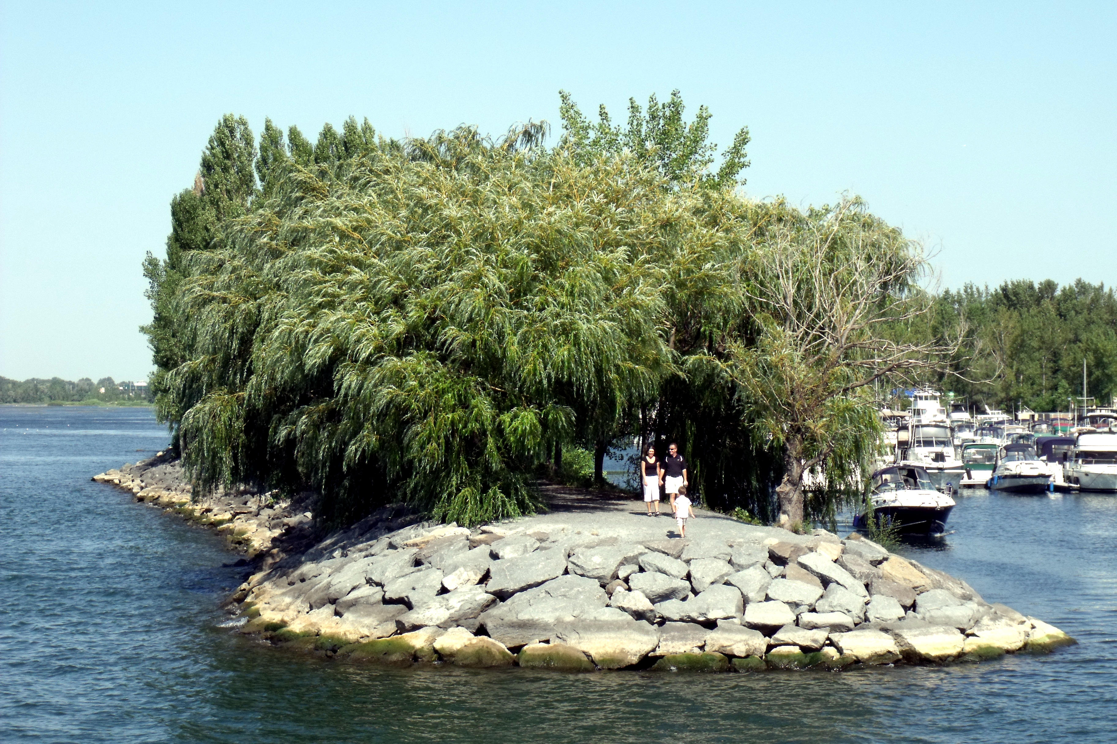 Entrance of Longueuil Marina, Quebec, Canada